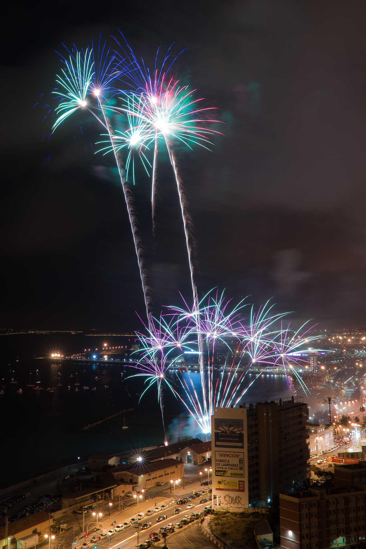 Exhibition of fireworks in Alicante, Spain, 2011.